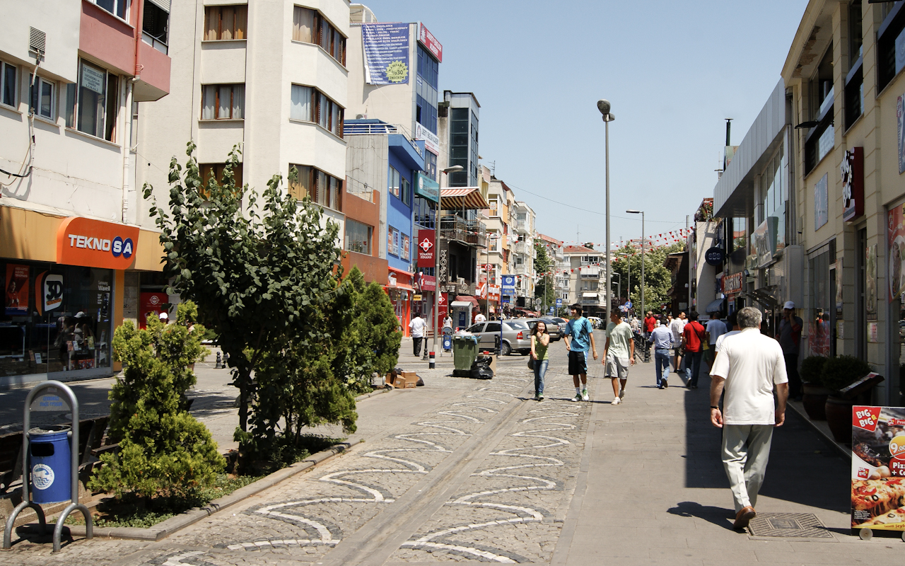 Street in Pendik, Istanbul